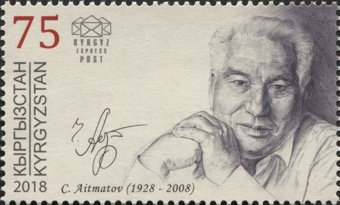 Chinghiz Aitmatov